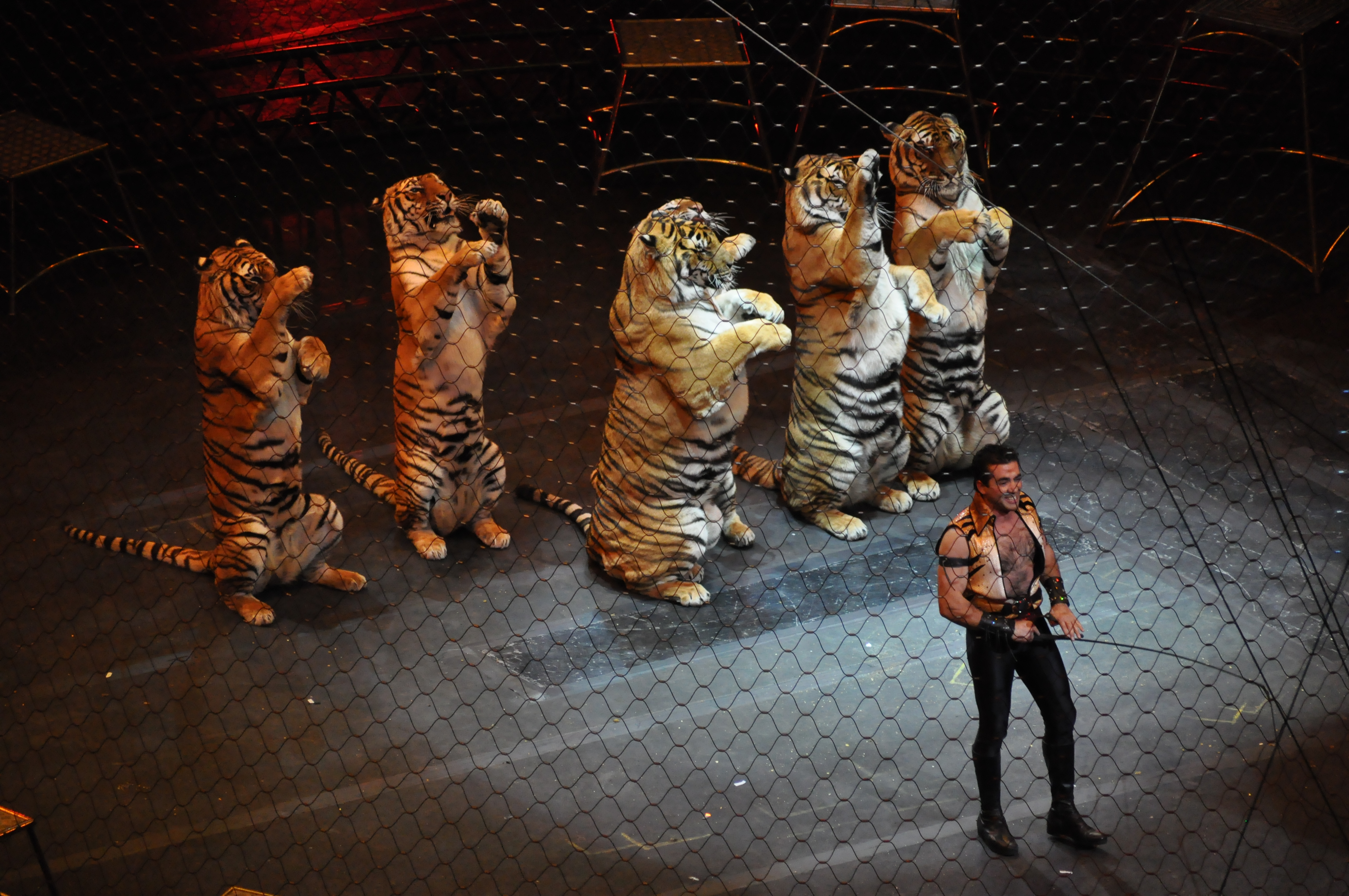 Ringling Brothers and Barnum and Bailey Circus Over the Top Tigers